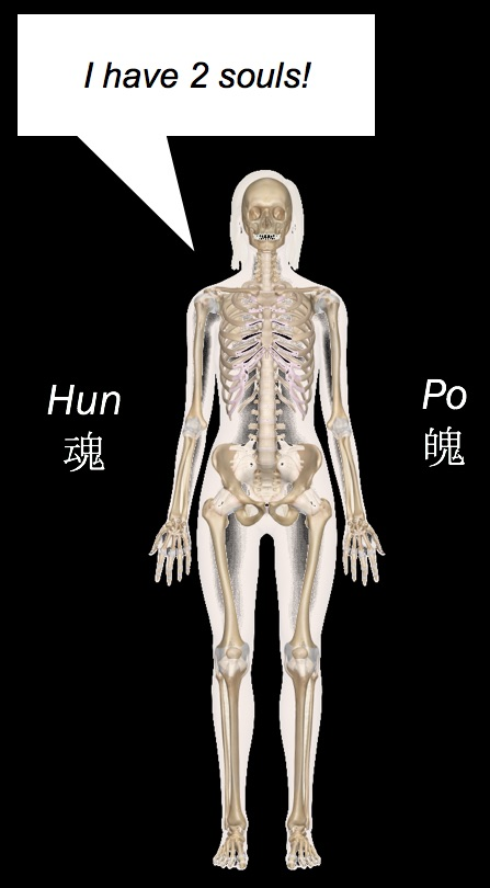 An illustration of the ancient Chinese's belief of the human soul, for a layman's initial understanding of this complex concept.